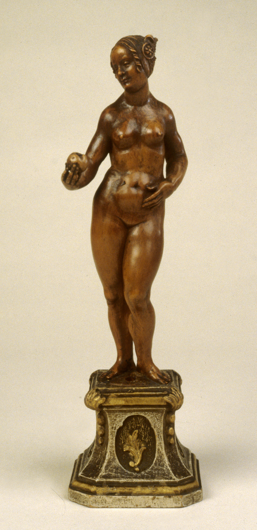 This lovely young woman's fanciful headdress marks her as Venus and not Eve. She was once part of a group of statuettes that recreated the classical myth of the Judgment of Paris. In a contest conceived by the goddess of Discord, the Trojan prince Paris was asked to judge who among Venus (goddess of love), Juno (wife of Jupiter, king of the Olympian gods), and Minerva (celebrated for her wisdom) was the most beautiful; a golden apple was presented to the winner. Venus here holds the apple that memorialized her triumph. Although the subject is from classical antiquity, the rounded proportions of the figure are thoroughly "modern" Netherlandish.